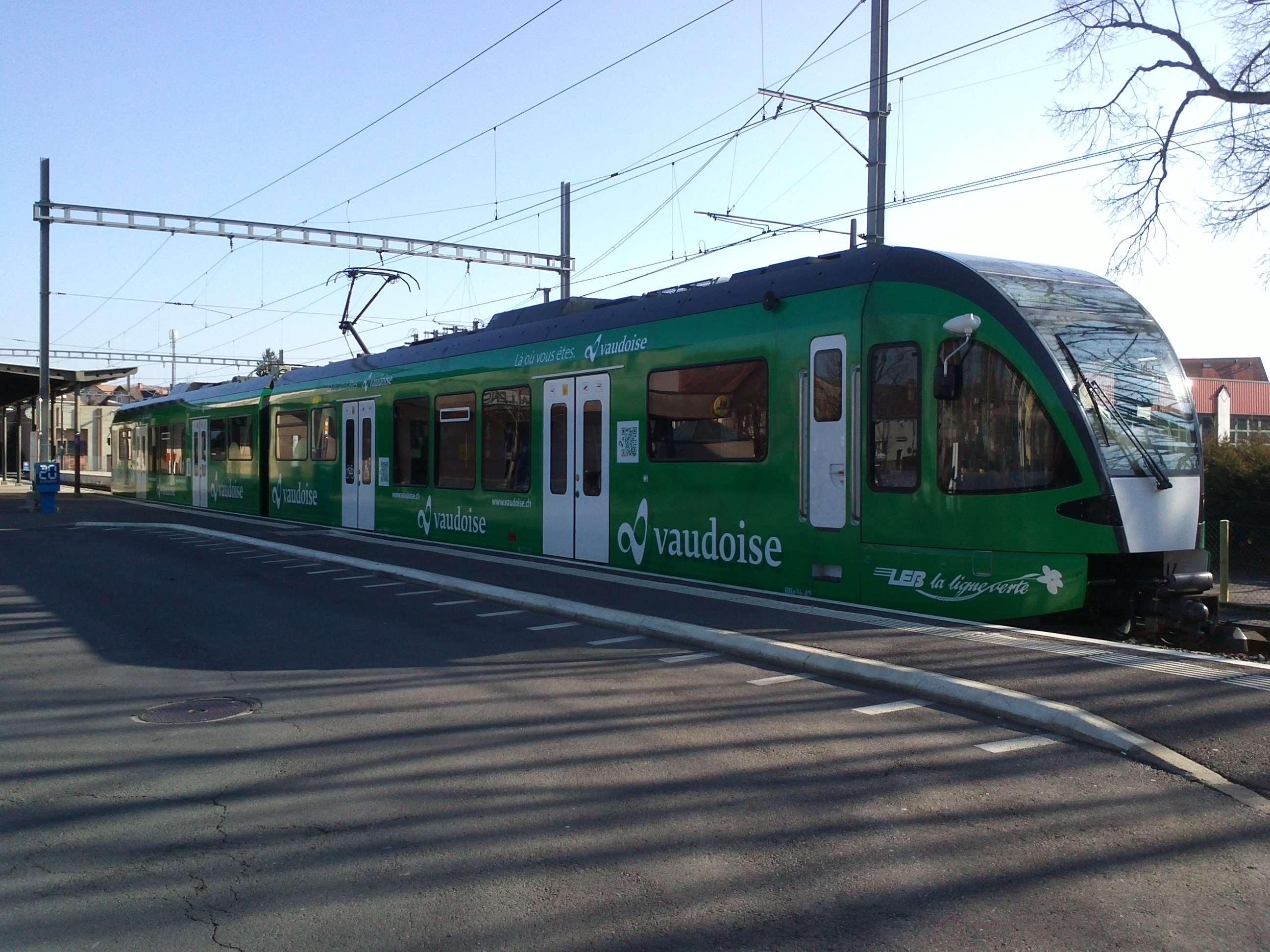 RBe 4/8 42 at the railway station of Échallens with advert for the Vaudoise Assurances.